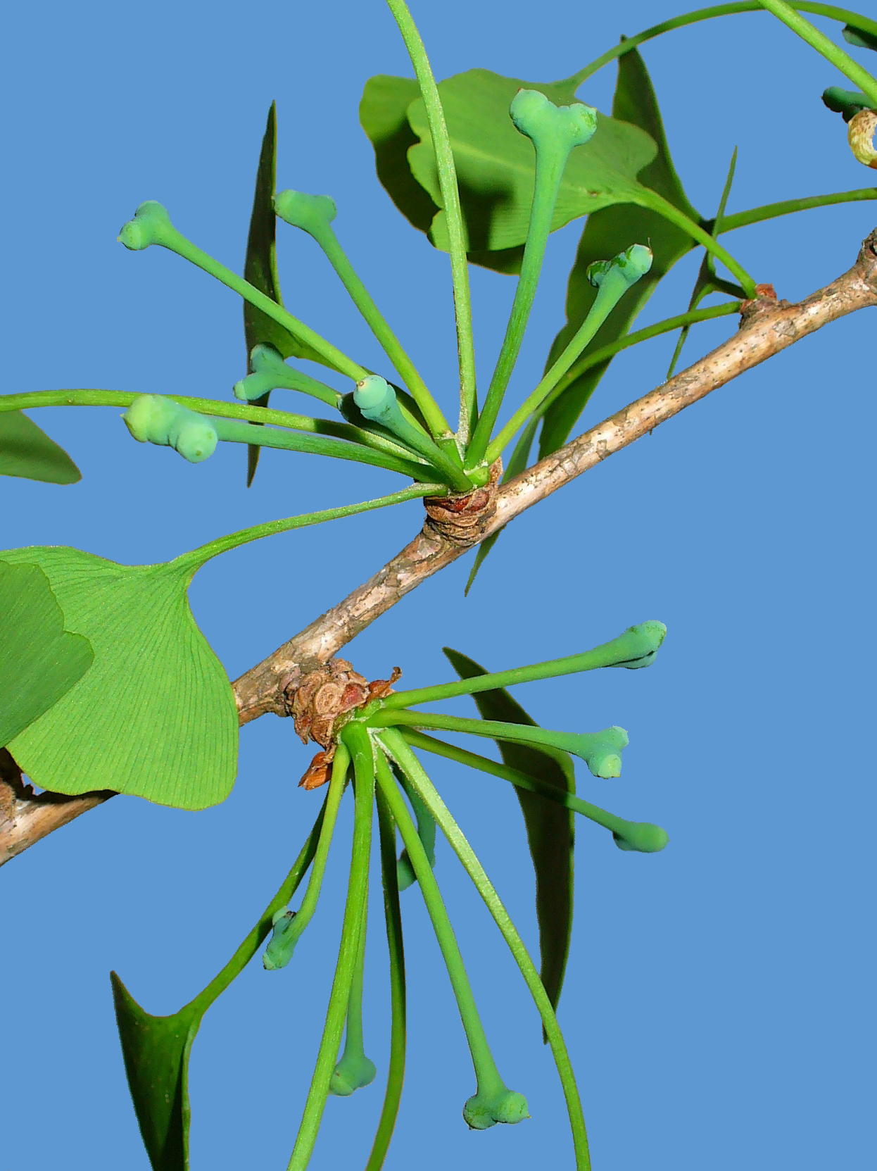 Ginkgo biloba, Ginkgoaceae, Ginkgo, female flowers; Karlsruhe, Germany. The fresh leaves are used in homeopathy as remedy: Ginkgo biloba (Gink-b.)